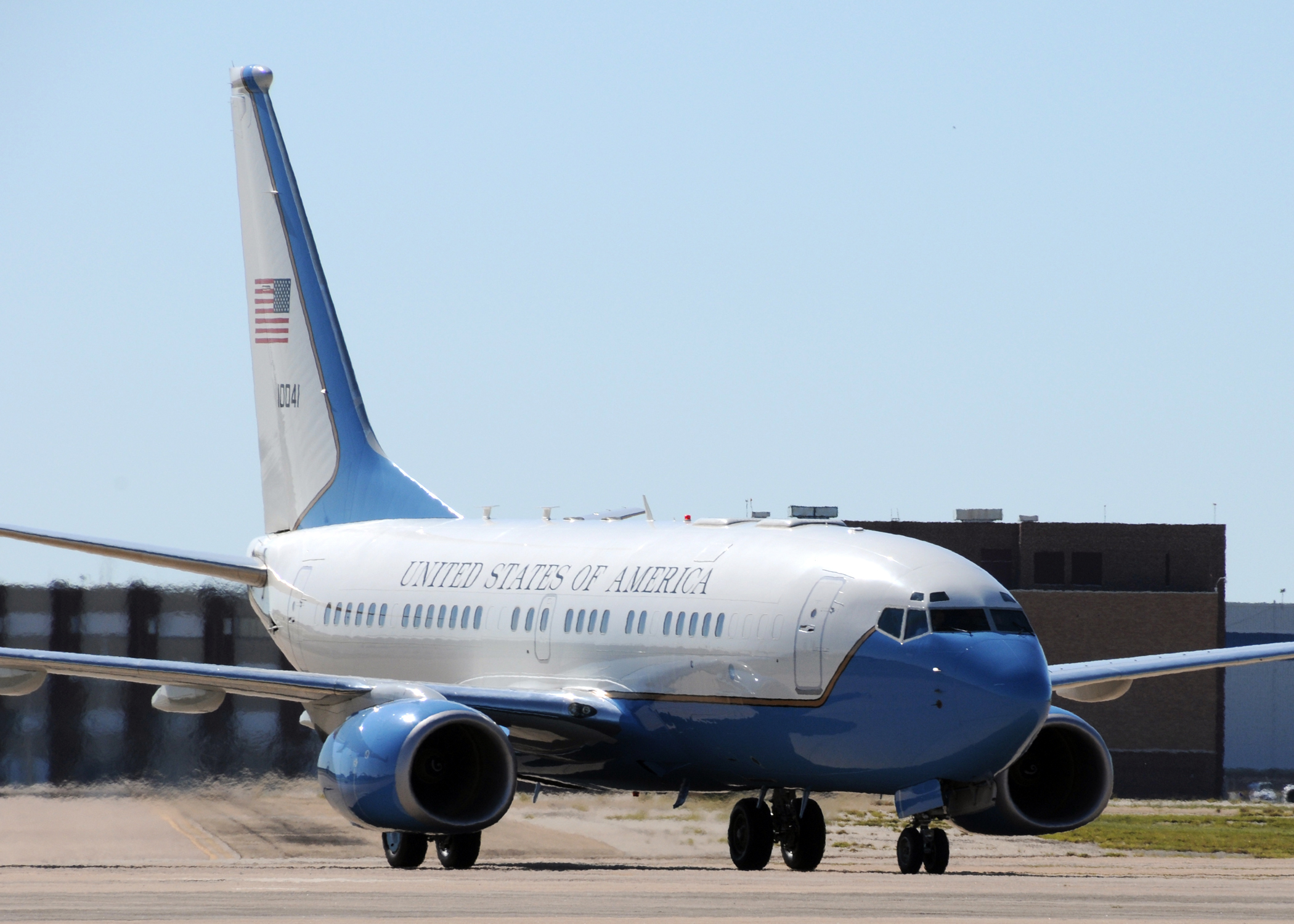 FORT WORTH, Texas (Sept. 16, 2008) First Lady Laura Bush arrived at Naval Air Station Joint Reserve Base Fort Worth, Texas, in a C40-B Boeing Business Jet for a brief appearance at a local event. (U.S. Navy photo by Mass Communication Specialist 2nd Class D. Keith Simmons/Released)